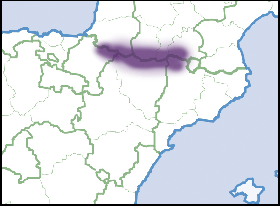 Pyrenaearia carascalensis (Michaud, 1831). Distribution in Europe, scientific state of knowledge of 2012. Source description in English. Light colour indicated rare occurrences or regions where the species could eventually be expected to occur. Dark colour indicated relatively reliable occurrences, as well as regions where the species was expected to occur, and where the species was not known to be extremely rare. Dark colour indications were not necessarily based on published records. Species summary in AnimalBase